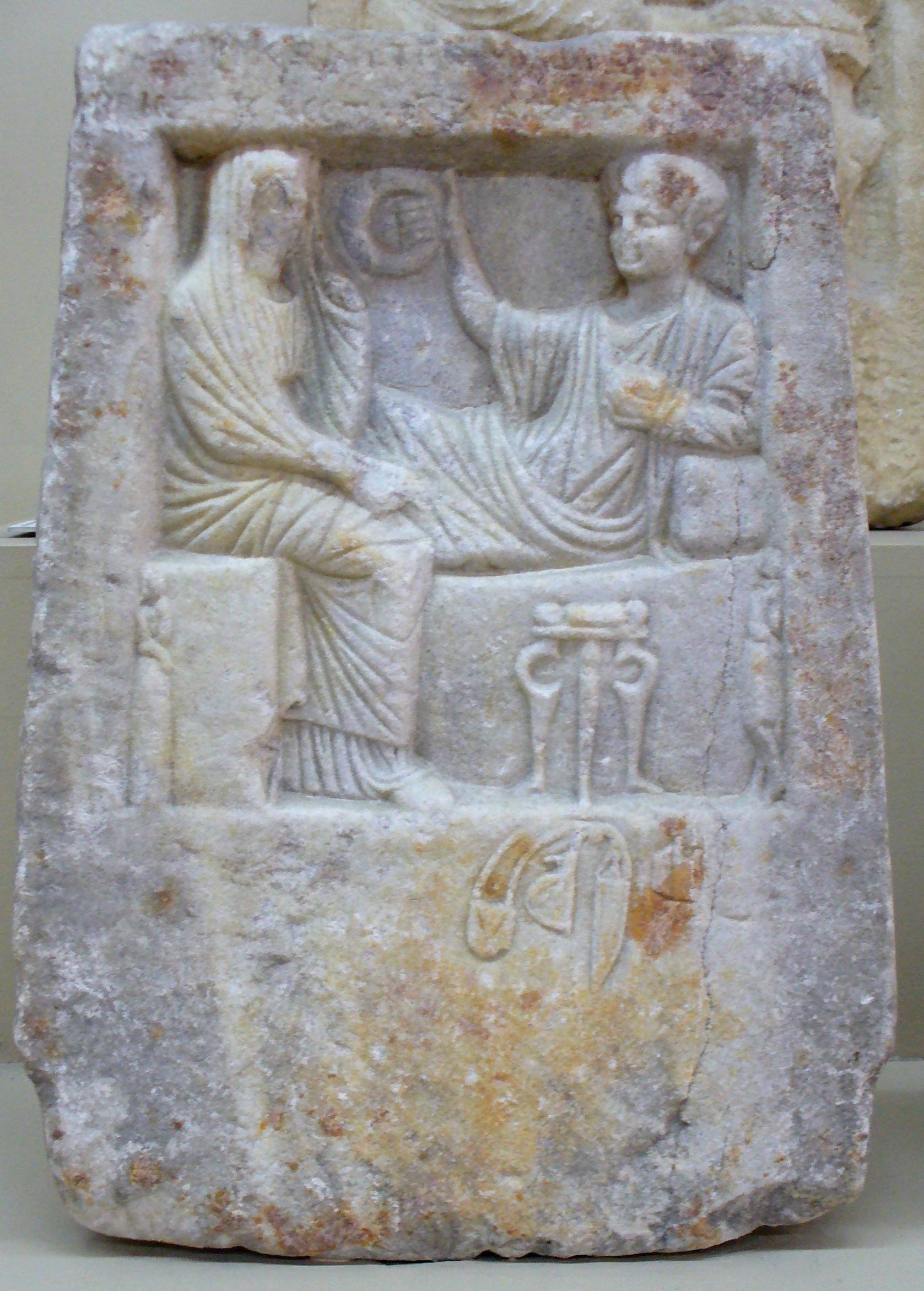 Marble funerary stele from Chalcedon. 1st century BCE. The Greek inscription reads, "Matricon son of Promathion lived without fault for 54 years."